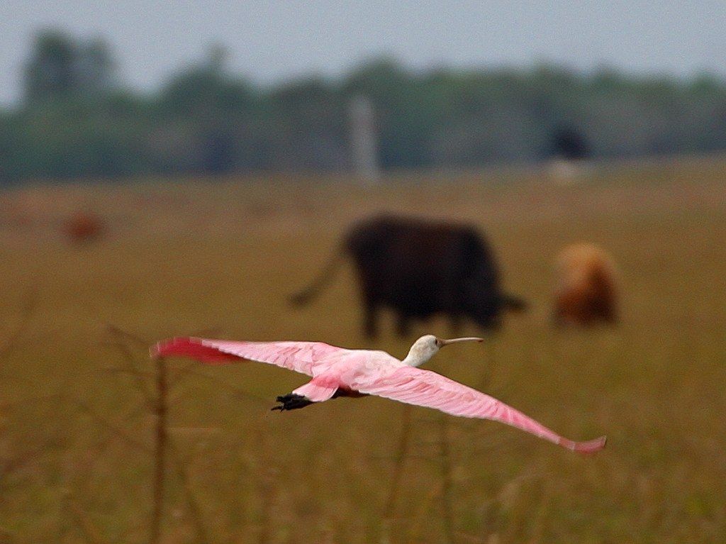 A spoonbill in Louisiana.